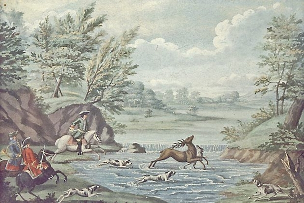 Par force hunting in North Zealand, Denmark. WWater colour by Johan Jacob Bruun